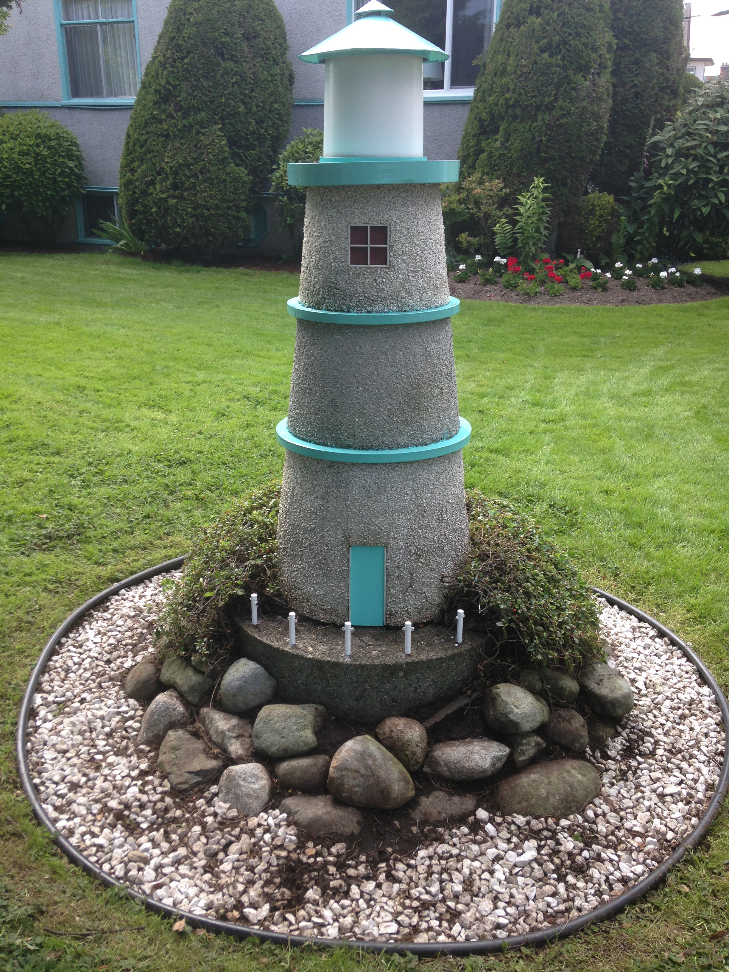 A miniature lighthouse built in 1962. It has become a symbol of the Beacon Lodge.